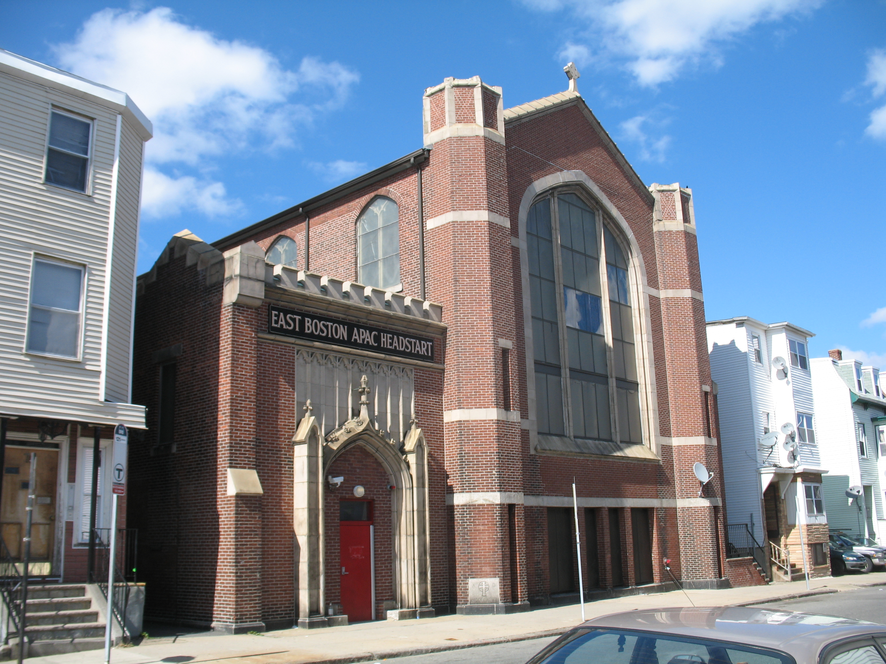 St. John's Church, 80 Lexington St, East Boston, MA. Site of East Boston APAC Headstart.